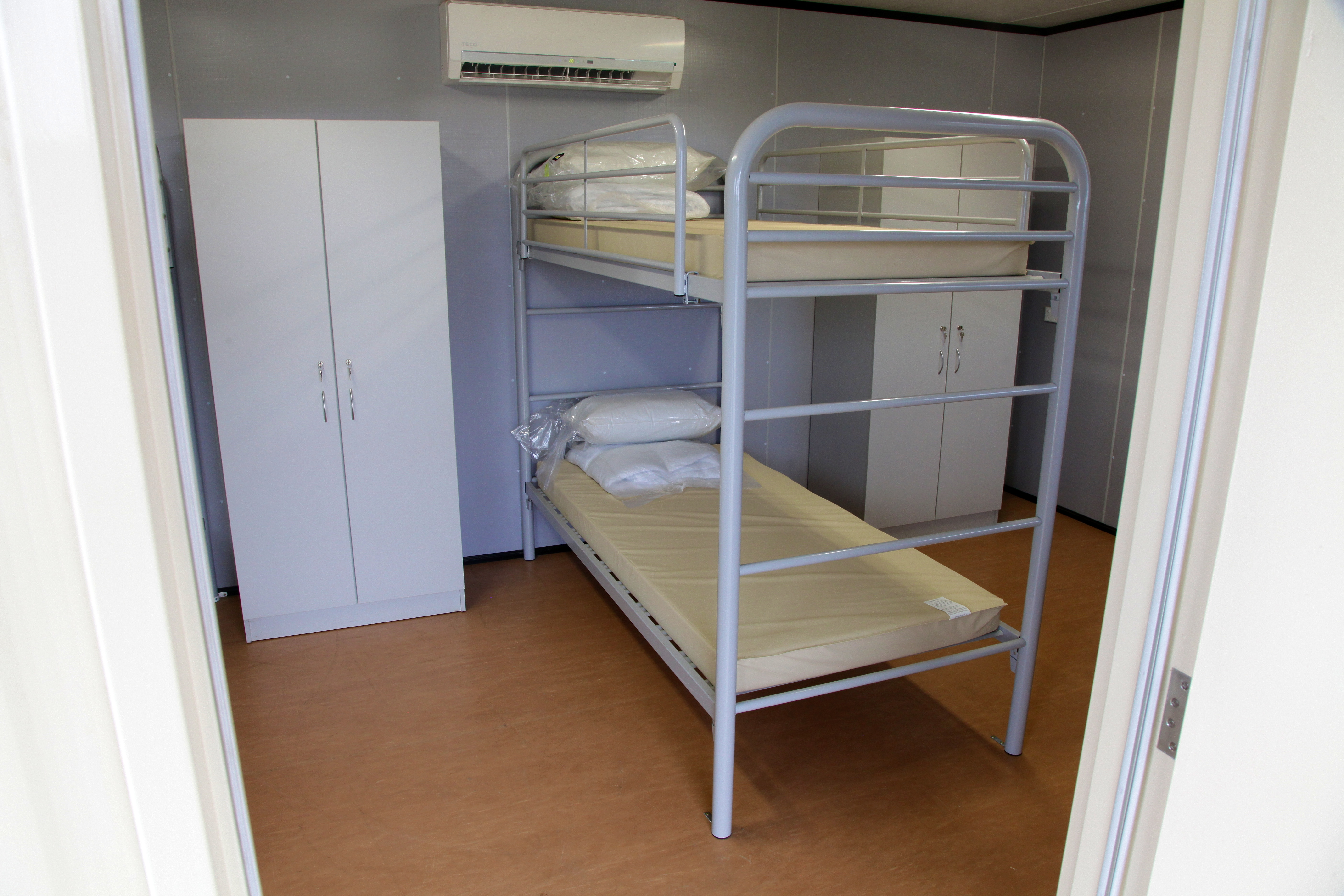 Yongah Hill Immigration Detention Centre